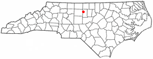 Category:North Carolina Dot Maps